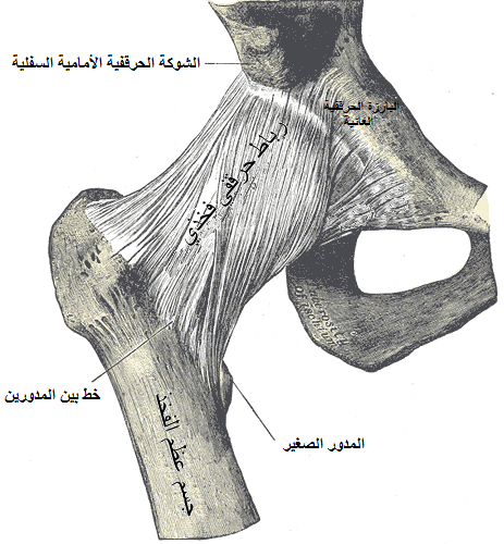 Right hip-joint from the front. (Spalteholz.)